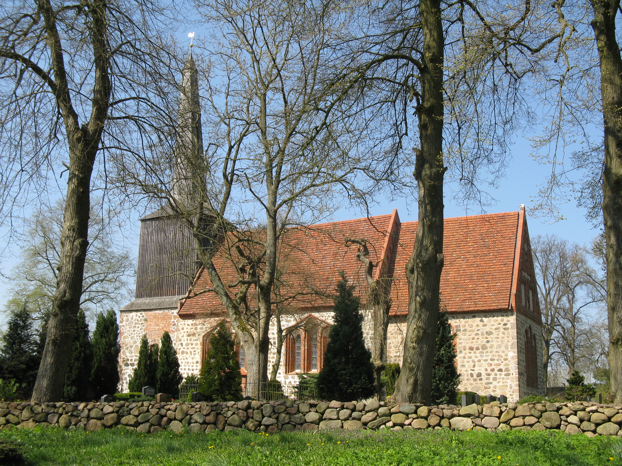 Church in Ruchow, disctrict Parchim, Mecklenburg-Vorpommern, Germany